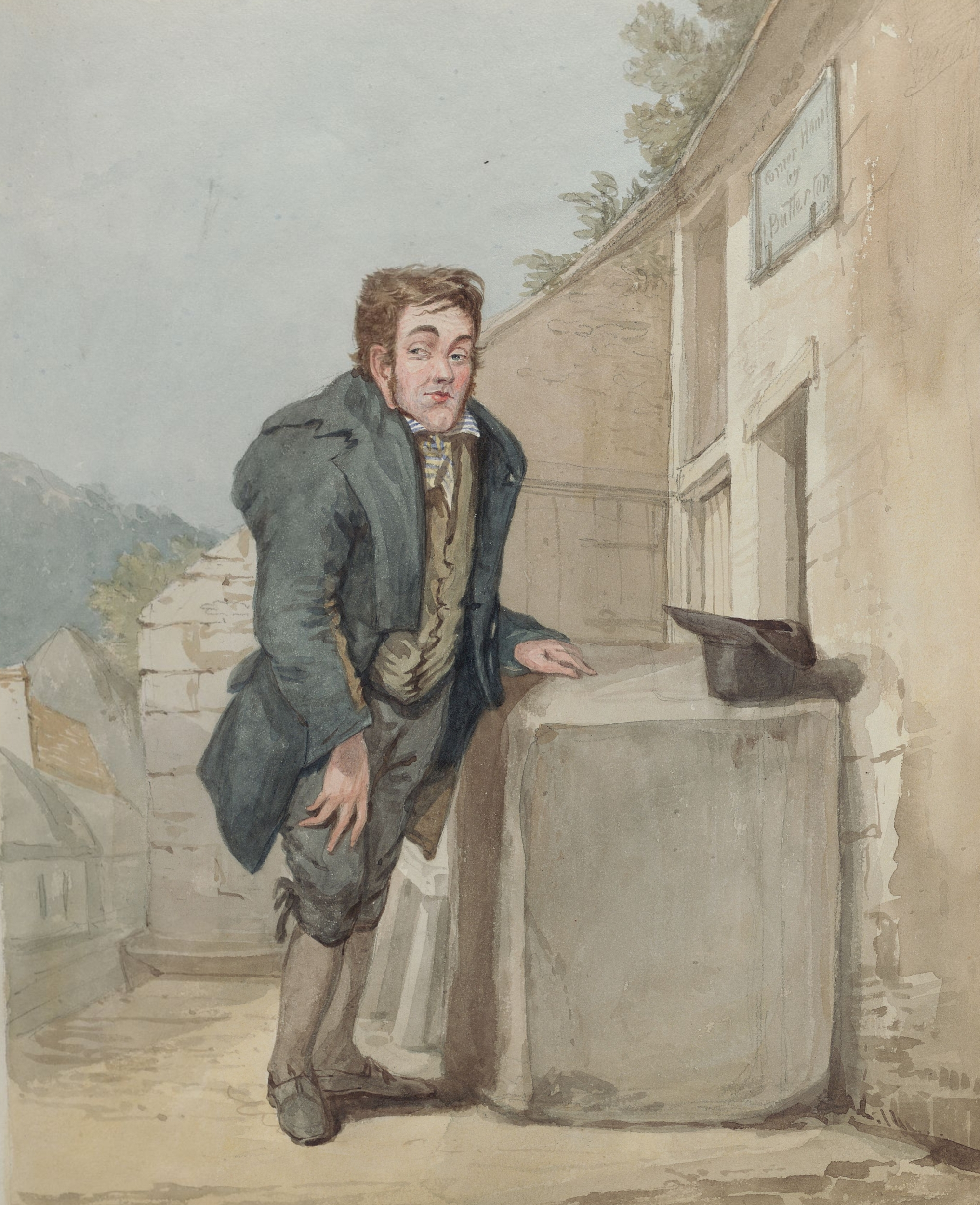 Welsh character portraits and Welsh costume relating mainly to South Wales. Portraits include Shrimpman, Idiot, Muffin Seller, Ferryman, Preacher, Servant, Begger, Harper, Irish Haymaker, Coracleman, Fiddler, Sailor, Hostler, Scottish buskers, Cowman, Blacksmith